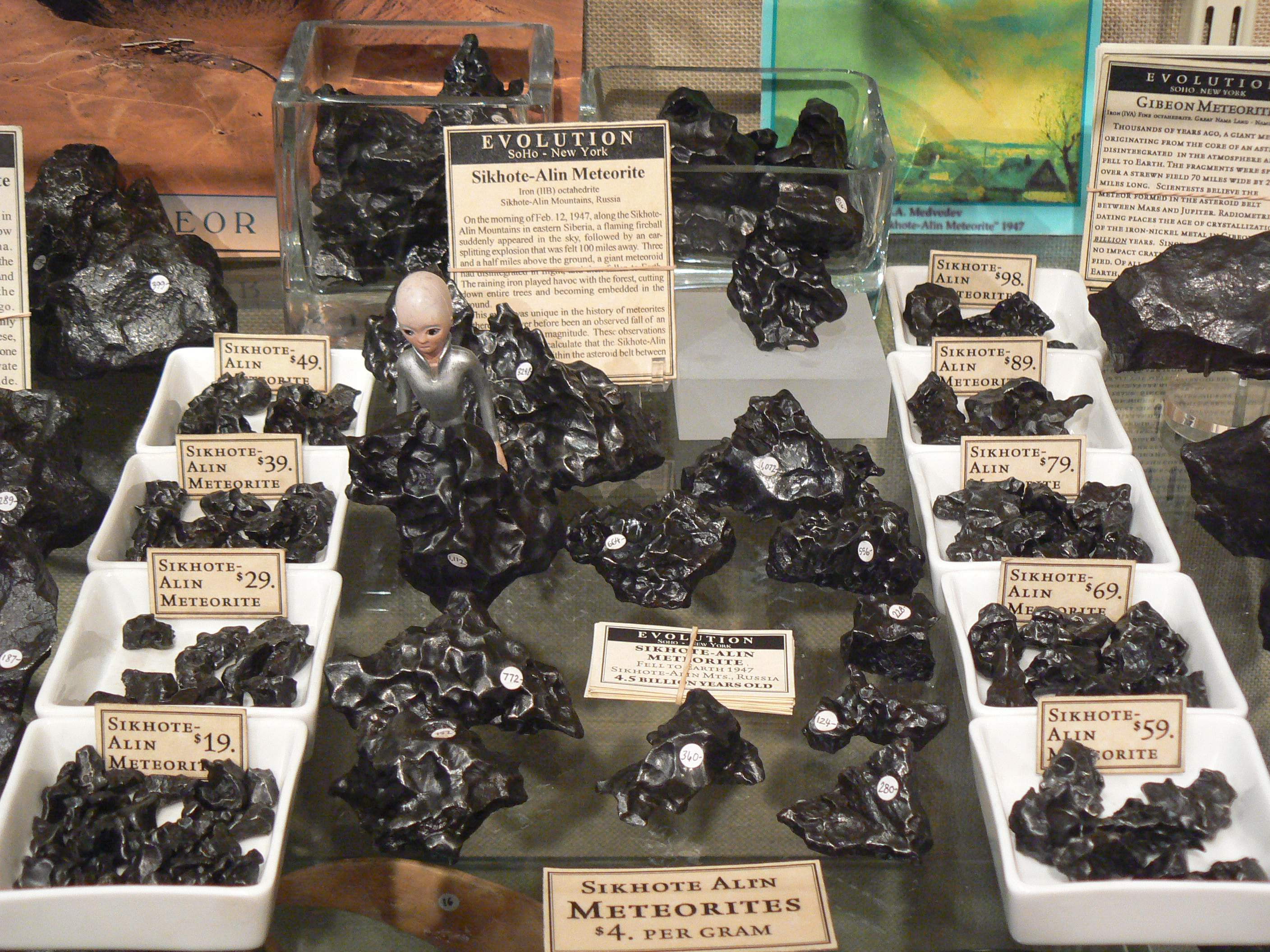 Small Sikhote-Alin meteorite thumbprinted samples